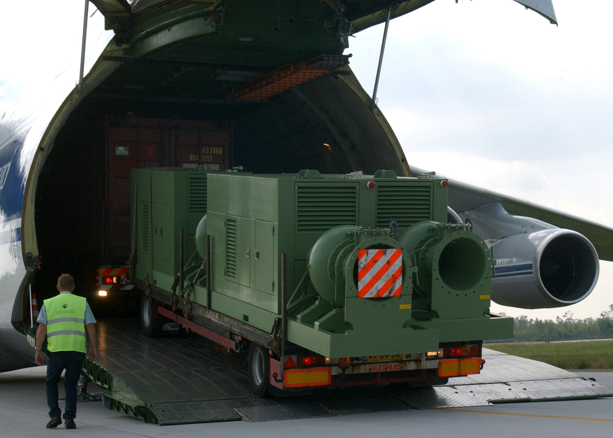 New Orleans (Sept. 12, 2005) - Military personnel unload a diesel powered water pump flown in by a Russian AN-124 Condor Aircraft to Naval Air Station Joint Reserve Base, New Orleans in support of Hurricane Katrina relief efforts. The water pump will be used to help pump out the water from New Orleans left over from Hurricane Katrina. The Navy's involvement in the Hurricane Katrina humanitarian assistance operations are led by the Federal Emergency Management Agency (FEMA), in conjunction with the Department of Defense. U.S. Navy photo by Photographer's Mate 2nd Class Dawn C. Morrison (RELEASED)